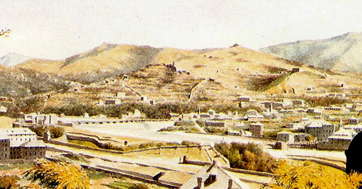 View of San Fruttuoso, quarter of Genoa, in 1822 (detail from a picture of Luigi Garibbo)